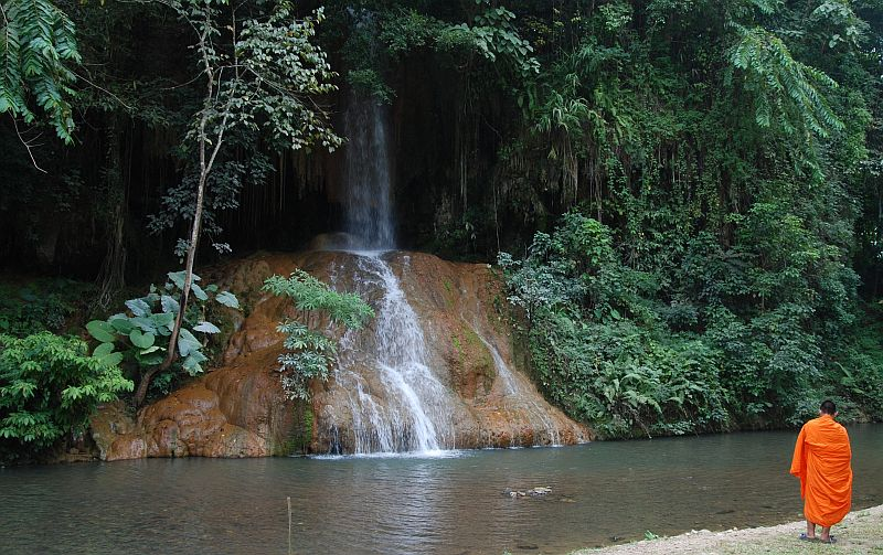 The water of Namtok Phu Sang comes from a hot spring with water temperatures around 33-35 degrees Celsius. It is one of the waterfalls of Phu Sang National Park.